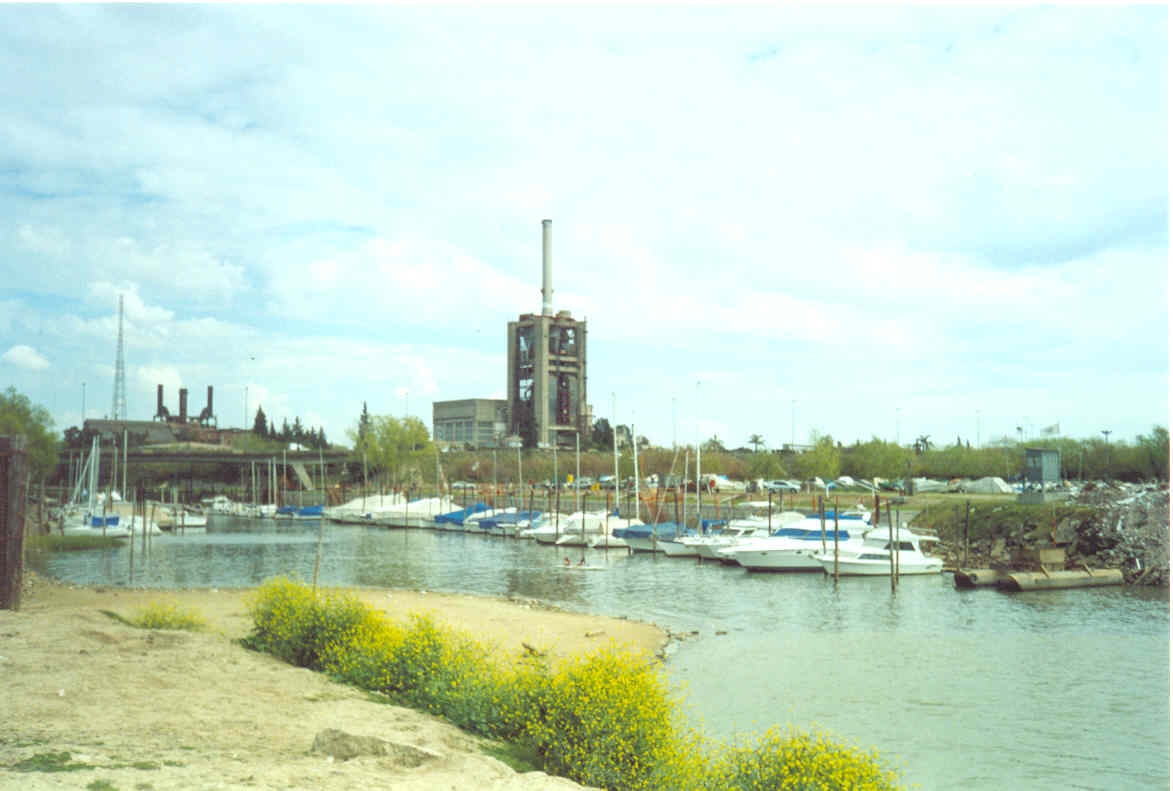 The Ludueña Stream, a small river of the province of Santa Fe, Argentina, just before emptying into the Paraná River in the city of Rosario. The building in the background is the Sorrento thermal power plant. I, Pablo D. Flores, took this picture myself in September 2005.